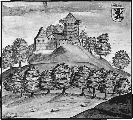 The Habsburg castle near Brugg, canton Aargau, Switzerland in late 16th century. Etching is located in the Austrian National Library.